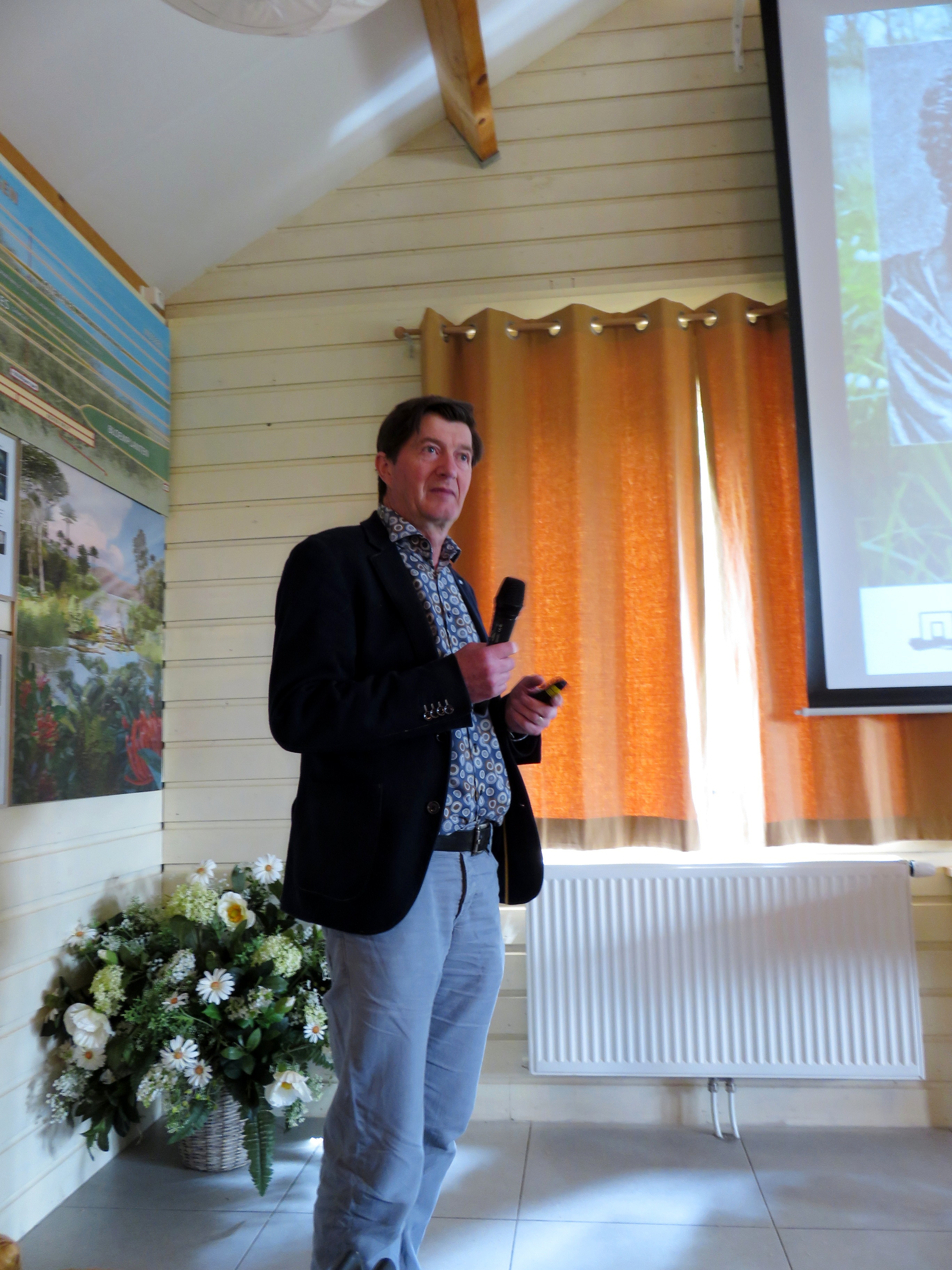 Joop Schaminée, botanist, giving a lecture in pinetum Blijdestein, Hilversum (NL). May 2017